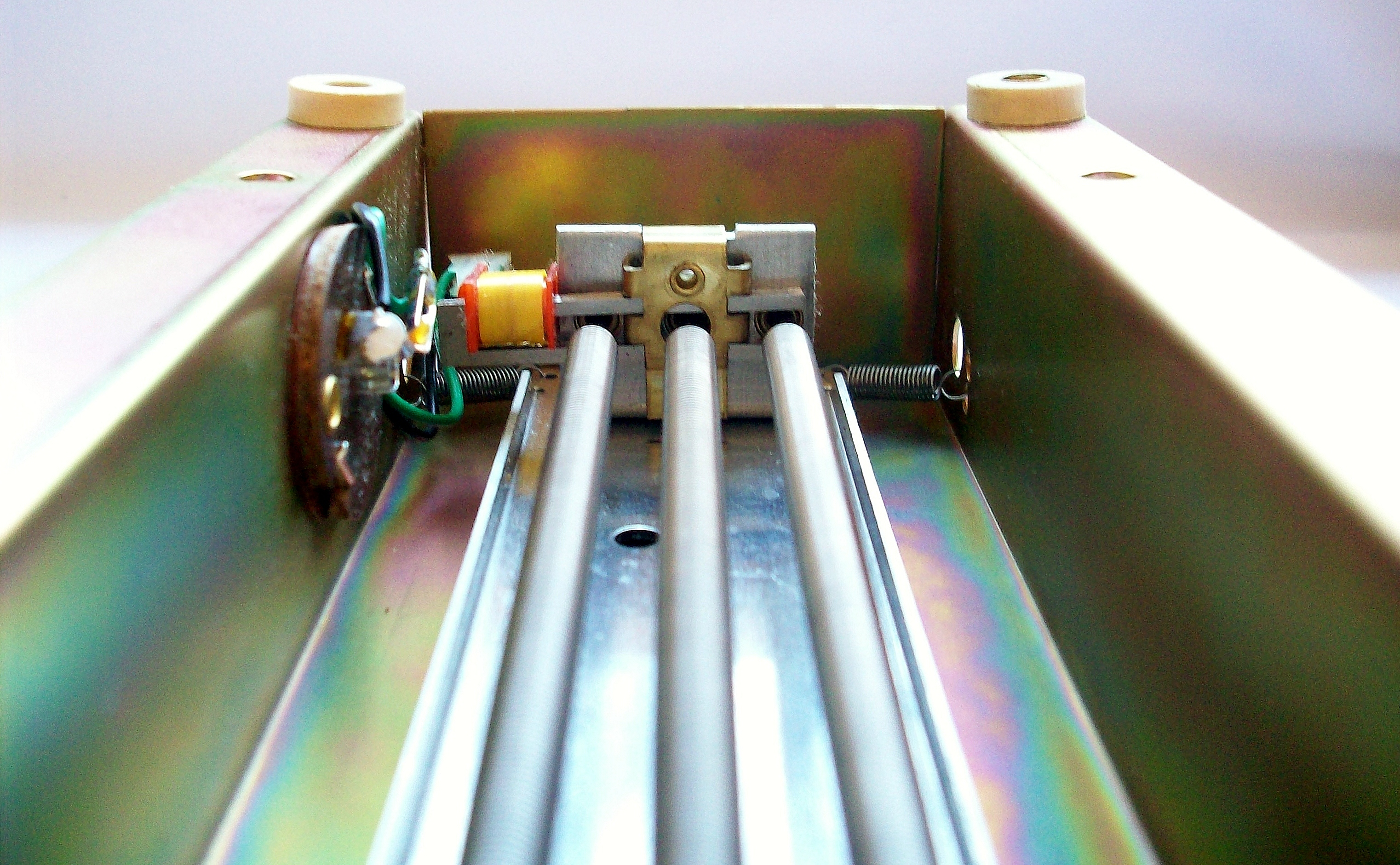 Close-up of the Transducer inside a Spring Reverb Tank.